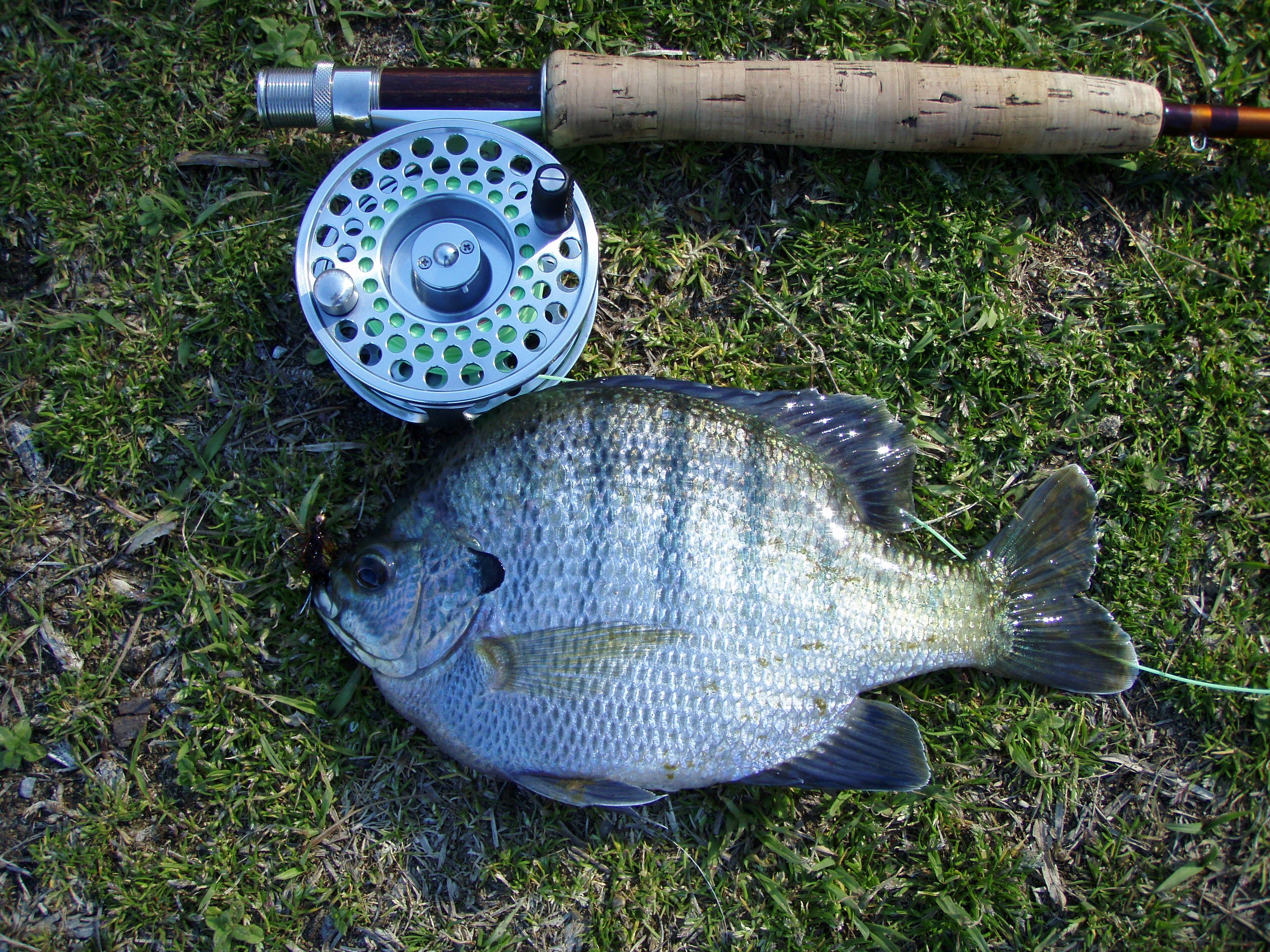 Bluegill (Lepomis macrochirus) from an Alabama farm pond